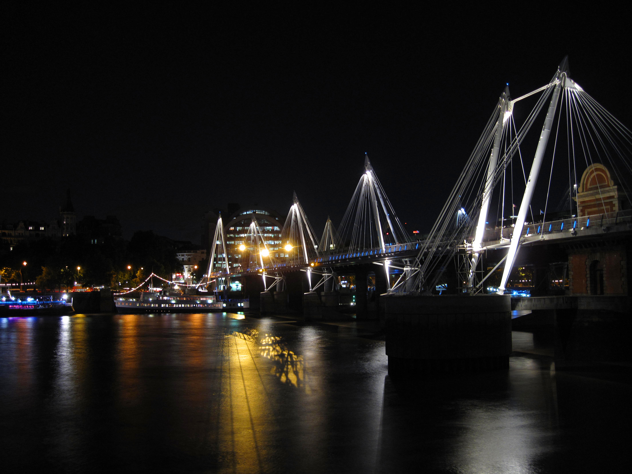 The southern of the two footbridges flanking Hungerford Bridge at night.